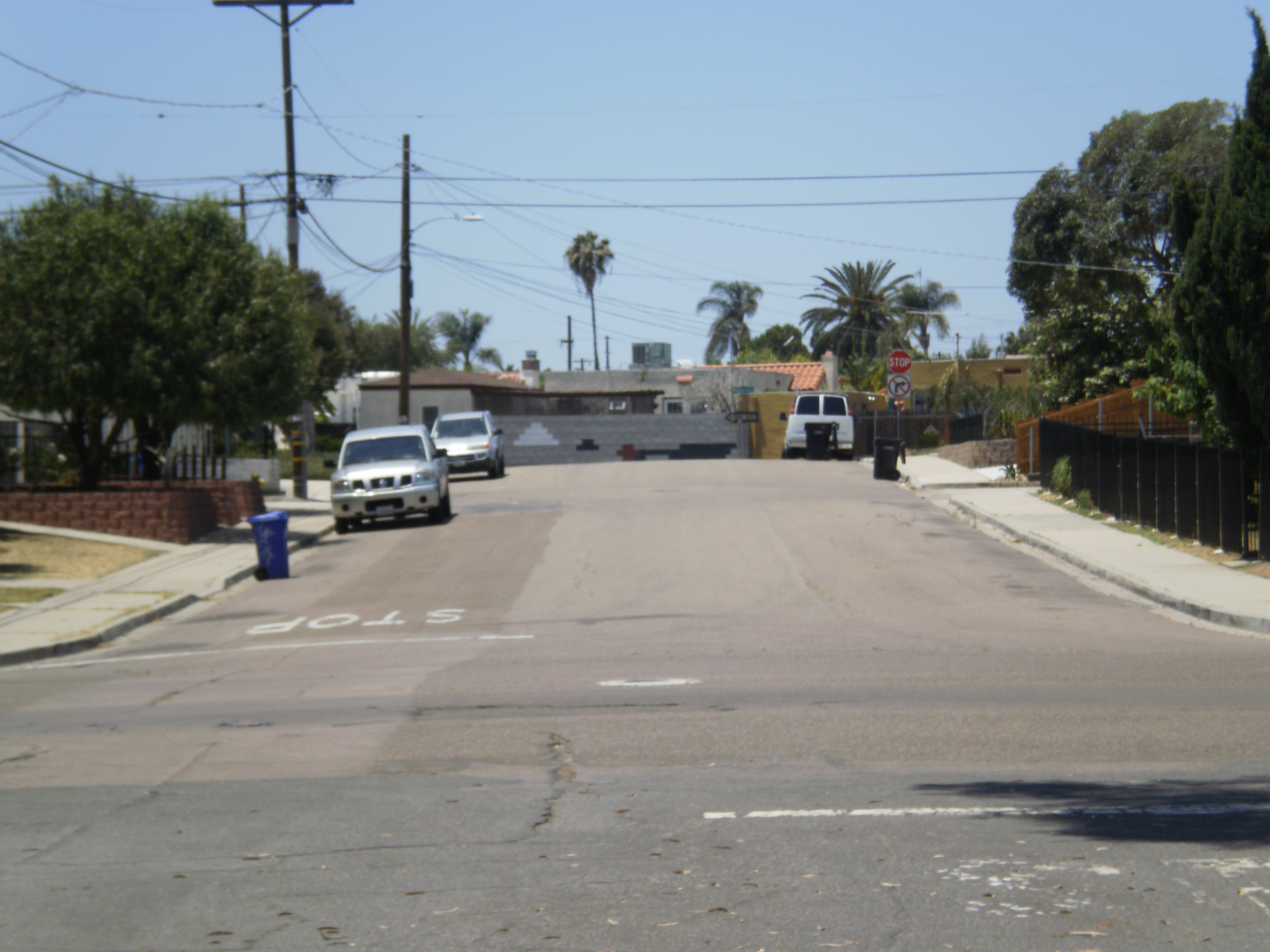 July 2010 photo of PSA 182 crash site at Dwight and Nile streets in North Park, San Diego, CA